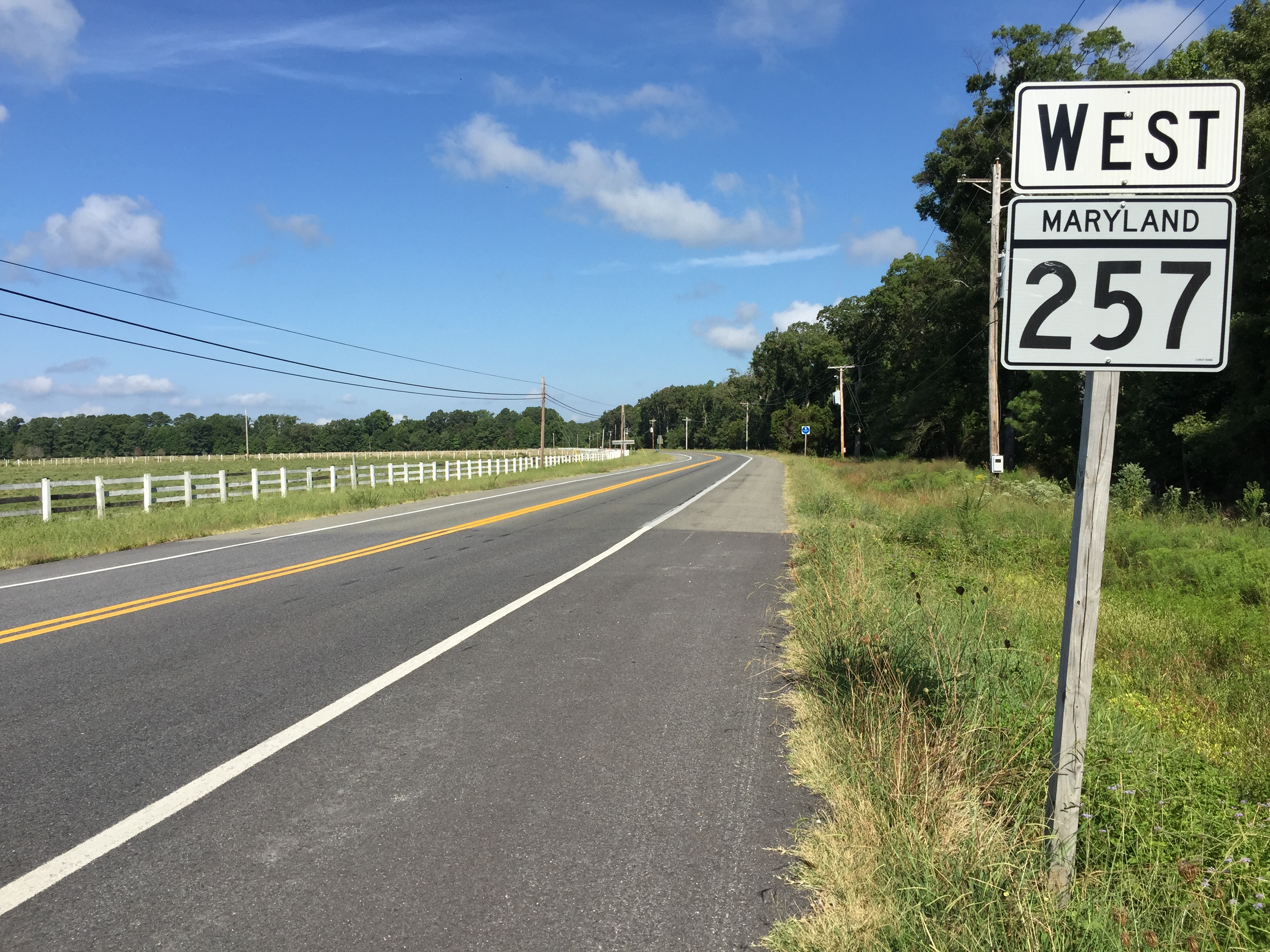 View west along Maryland State Route 257 (Rock Point Road) at Maryland State Route 254 (Cobb Island Road) in southern Charles County, Maryland